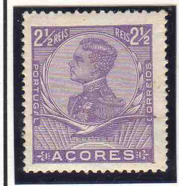 D. Manuel II